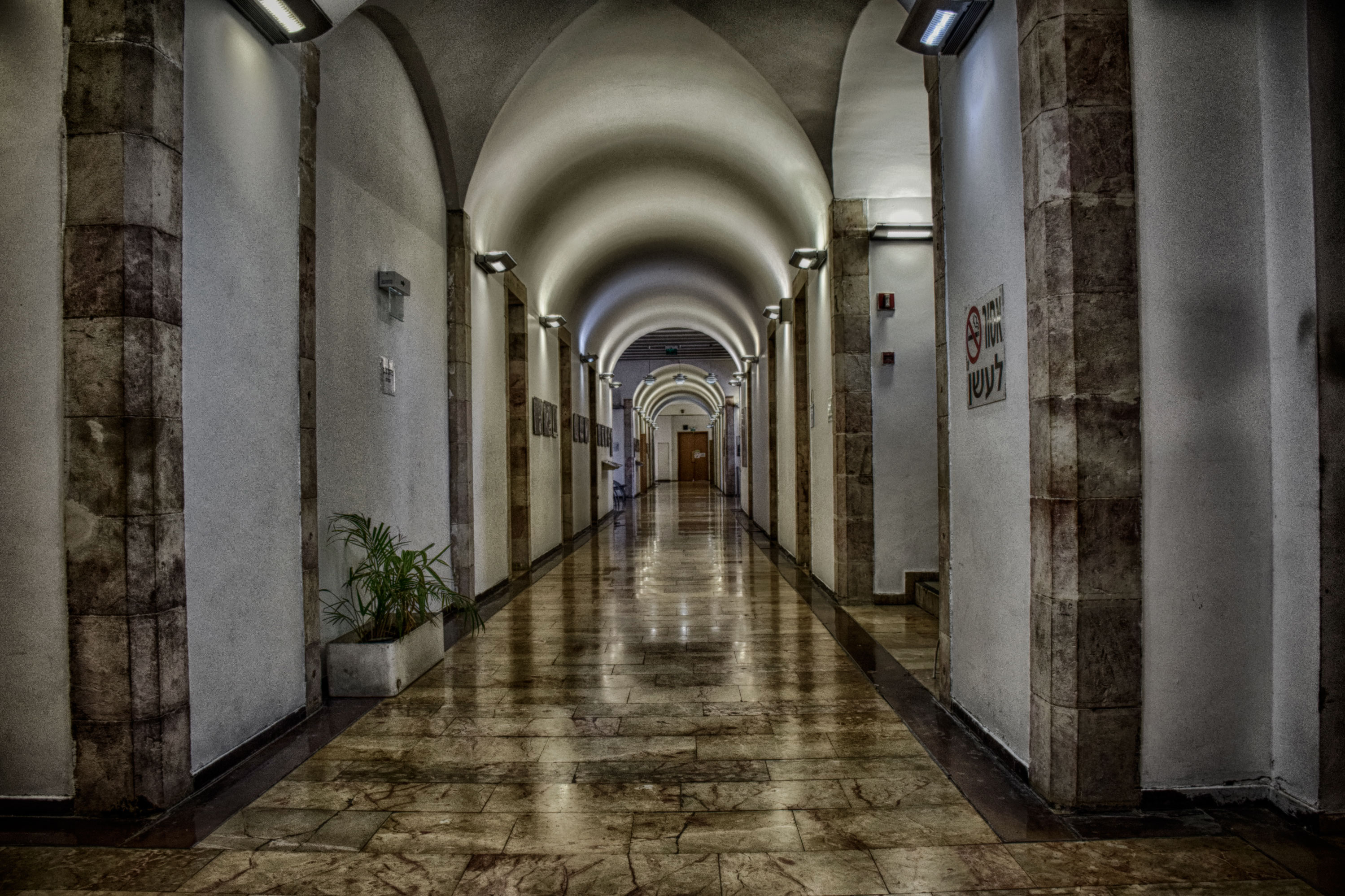 Israel Broadcasting service at Shaarei Tsedek Hallway